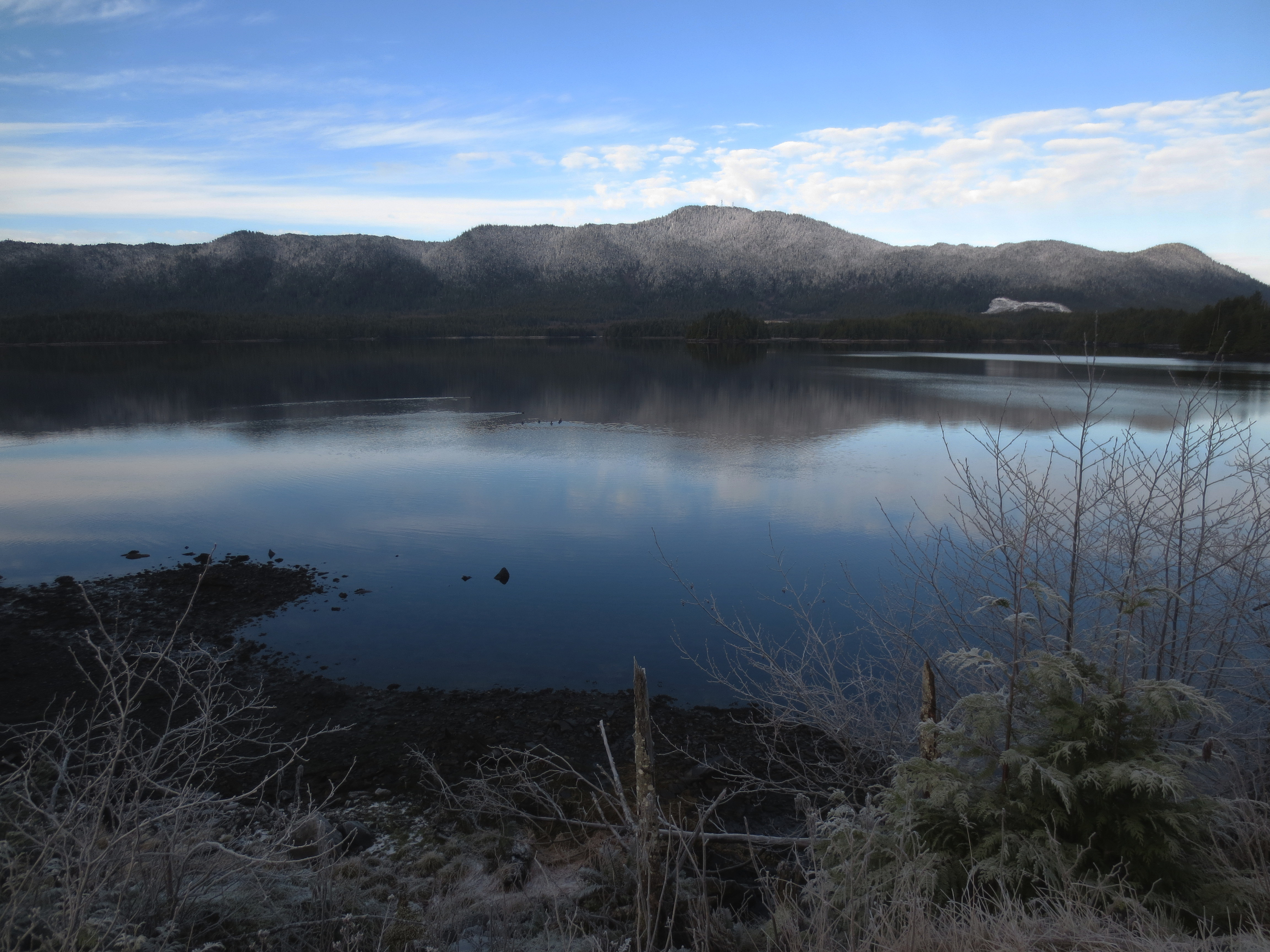 Looking across Wainwright Basin at Kaien Island dusted in frost